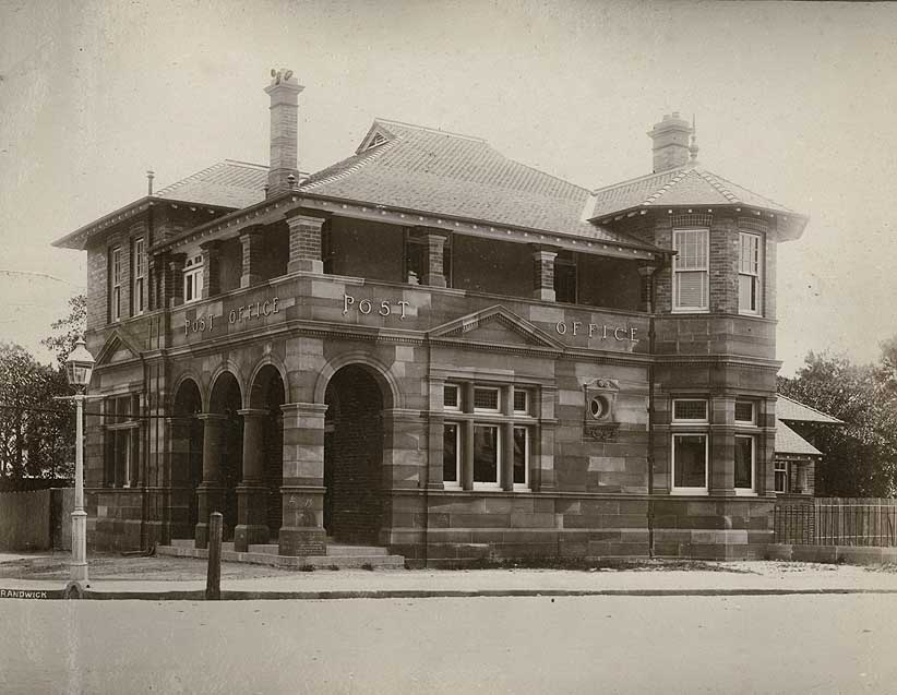 Randwick Post Office Dated: No date Digital ID: 4346_a020_a020000005 Rights: We'd love to hear from you if you use our photos. Many other photos in our collection are available to view and browse on our website using Photo Investigator.